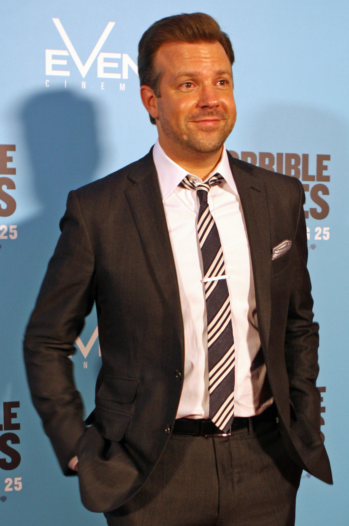 Jason Sudeikis at the film premiere of Horrible Bosses.